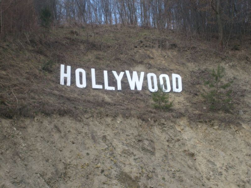 'Hollywood' sign on hill in Przysietnica, Poland.